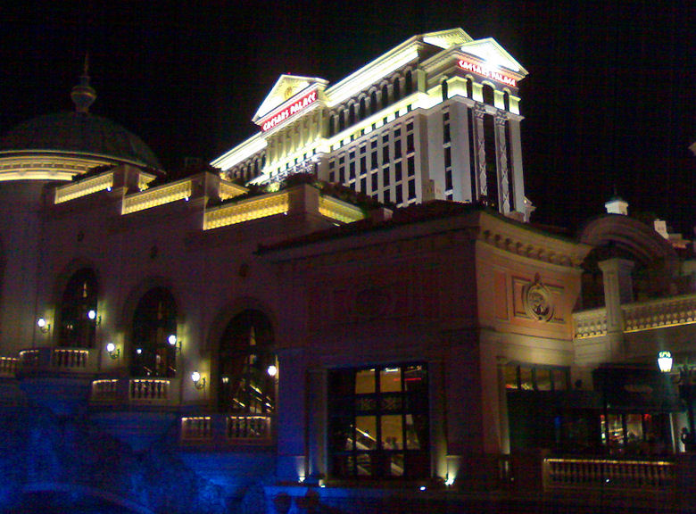 The Caesars Palace in Las Vegas.